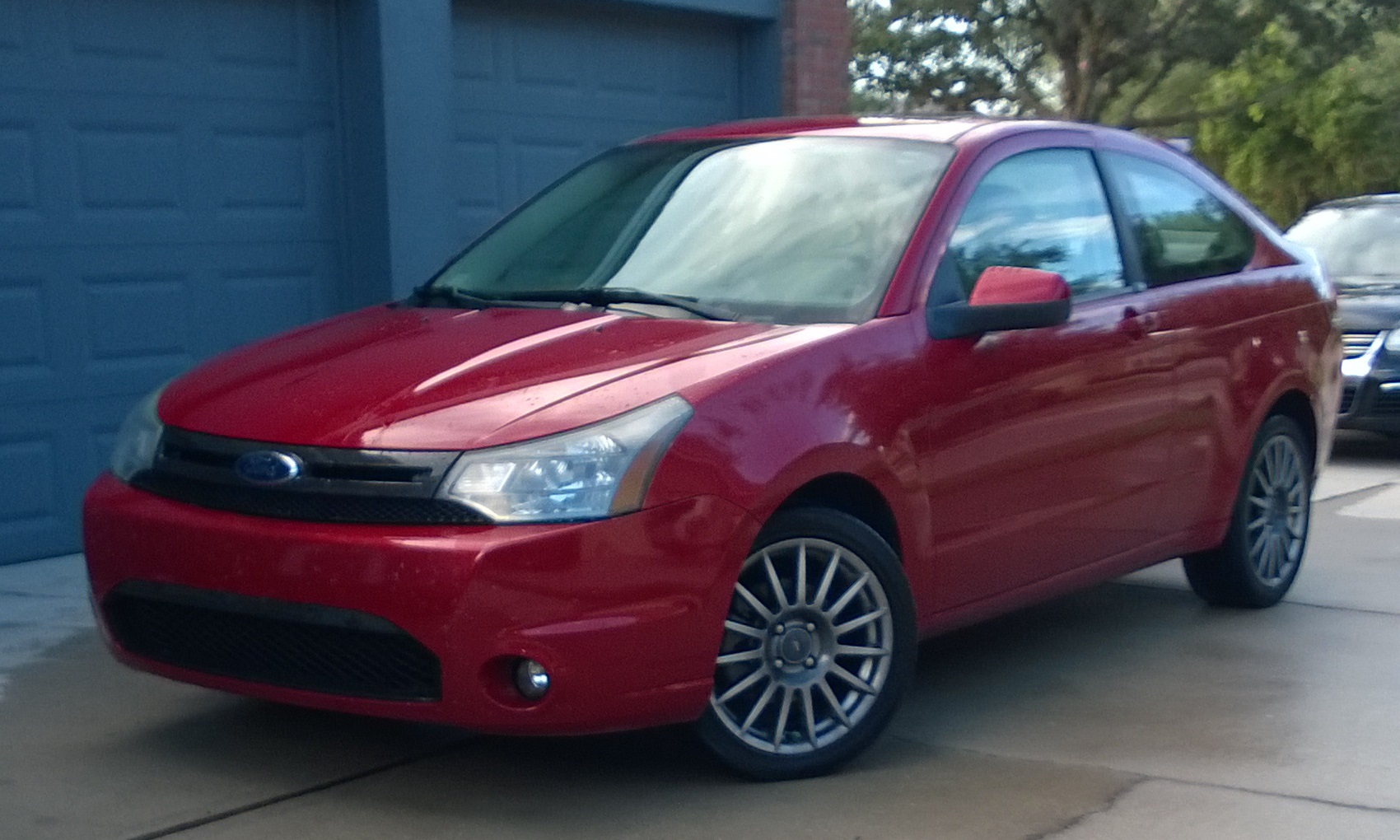 2009 Ford Focus SES coupe (North America)